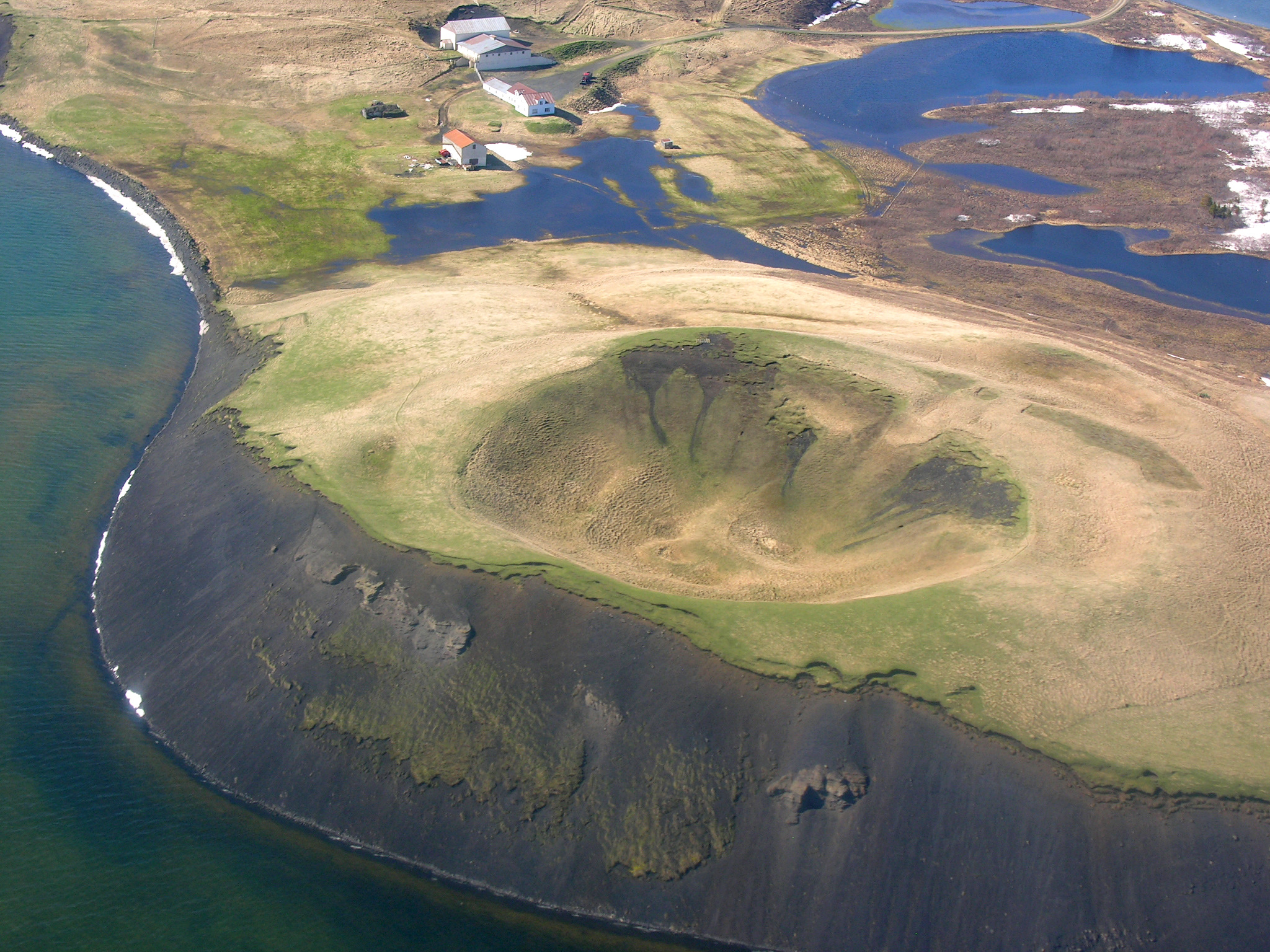 Aerial View of a Pseudo Crater at Mývatn, Iceland.